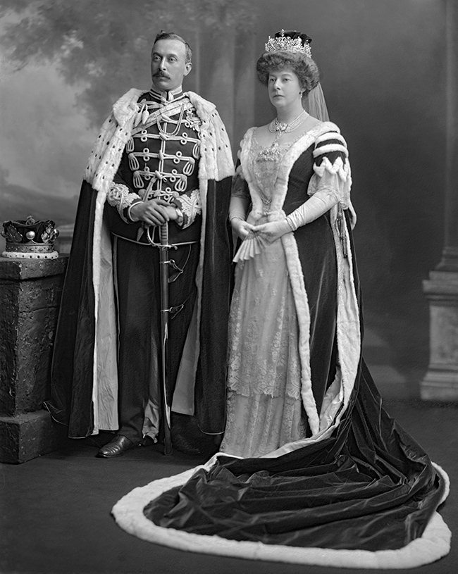 George William James Chandos Brundenell-Bruce, 6th Marquess of Ailesbury and Sydney, Marchioness of Ailesbury née Madden